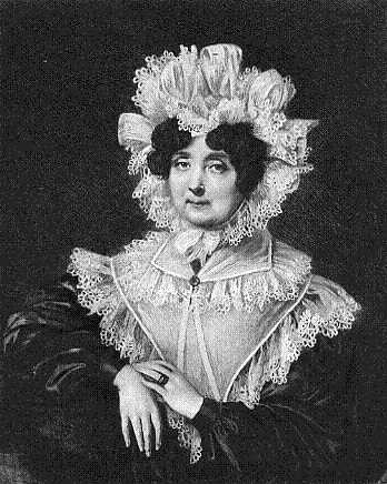 Portrait of Lady Nelson (1761-1831), wife of Horatio Nelson, 1st Viscount Nelson - Project Gutenberg eText 16914 Historian's Note: Legend has it that after her displacement as Nelson's wife, Lady Nelson thence became known as "Tom-Tit". Apparently documented, Lady Nelson had Rheumatism in her legs. Since she did, those around her claimed she walked rather bird-like. As a result, Lord Nelson, Lady Hamilton, and those closest to them called Lady Nelson, "Tom-Tit". Since Lady Emma Hamilton and Lord Nelson had a child, she was essentially considered Lord Nelson's true and loyal wife among most of Nelson's family and friends. After his death, however, Lady Hamilton's position during his life changed drastically, bringing about profound poverty. For the sake of respectability, all who knew Lady Hamilton turned from her and eventually embraced Lady Nelson once again - leaving Lady Hamilton with nothing. Those who knew the woman behind the great Nelson tried to airbrush her out of his life and history, but did not succeed. In general, we know more intimate details about Lady Hamilton than we know about Lady Nelson.